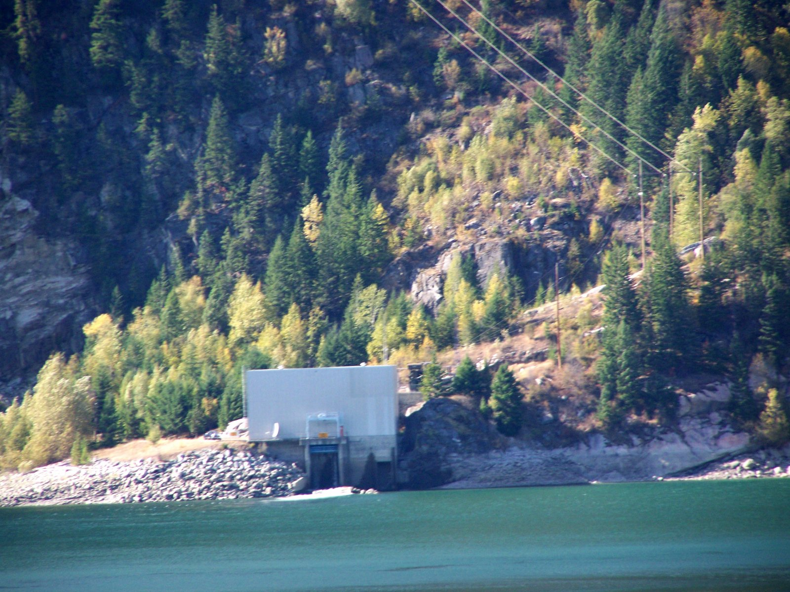 Arrow Lakes, BC, Canada